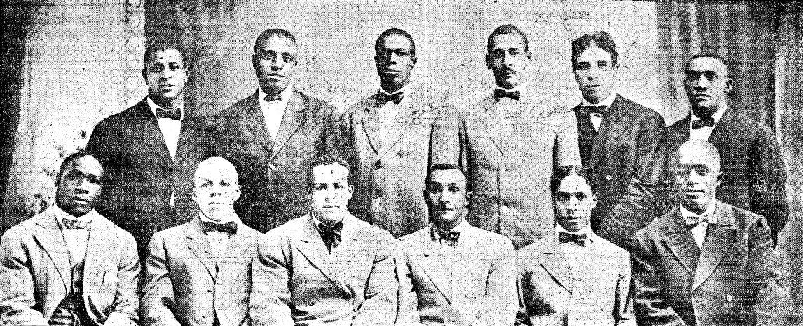 Picture from the Salt Lake Evening Telegram of October 1, 1910, Page 19, Columns 2 to 6. In the top row, left to right is Ad Langford, Pitcher and Outfielder; Tullie McAdoo, First baseman; Vaugn Mooney, Pitcher and Outfielder; Sam Hawkins, Shortstop; Claude Burns, Outfielder; Joe Robinson, Second base; Bottom row, left to right is Peter Jackson, Scorer and Press Agent; "Serious" Langley, Catcher; Billy Layne, Third base; Frank Black, Manager, Captain, and Utility man; Joe Burns, Change Catcher; Tom McAdoo, Business Manager.